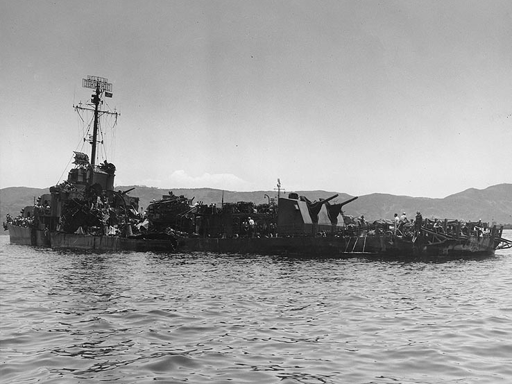 The U.S. Navy destroyer minelayer USS Aaron Ward (DM-34) in the Kerama Retto anchorage, 5 May 1945, showing damage received when she was hit by several Kamikazes off Okinawa on 3 May.